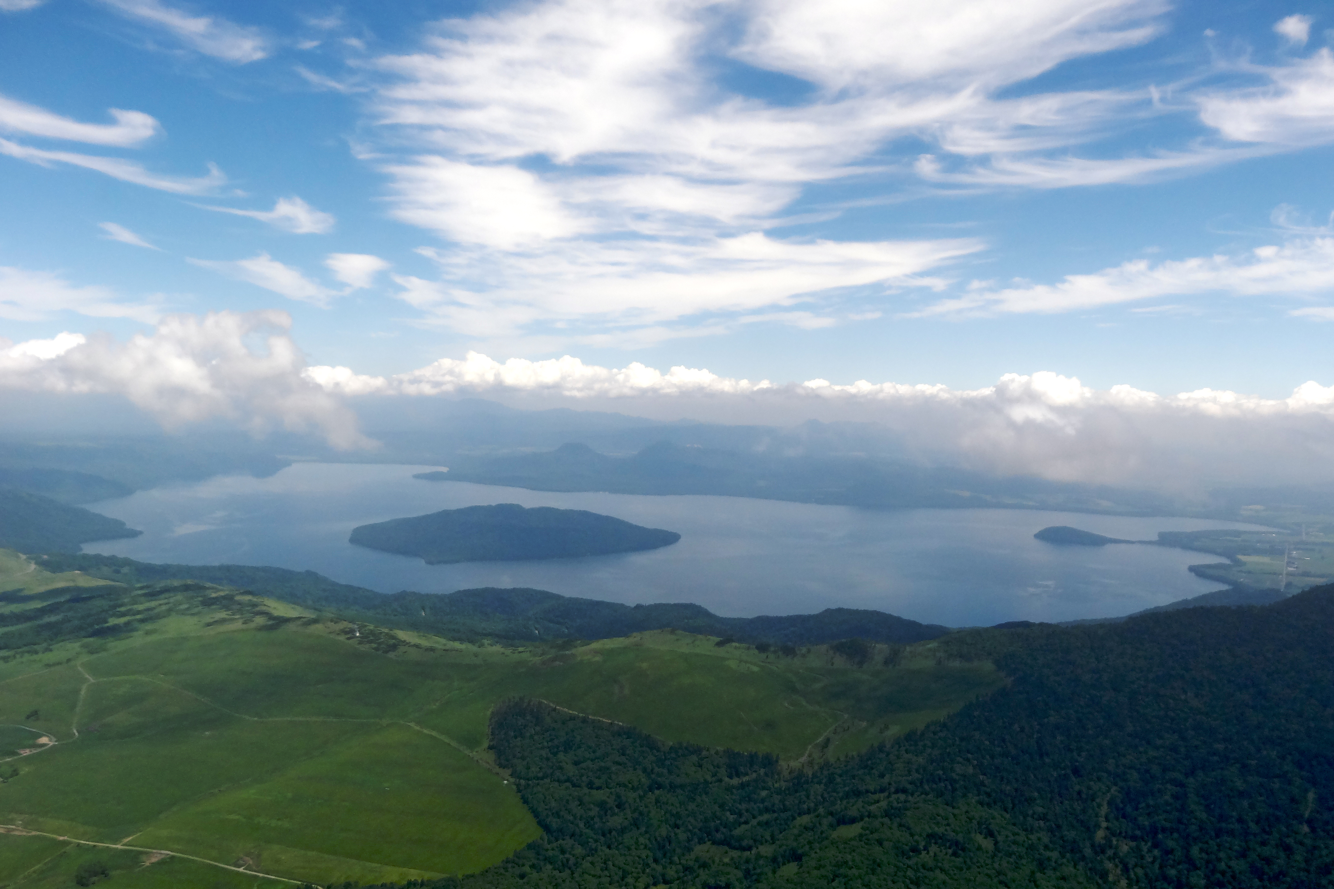 Lake Kussharo seen from the west, in Teshikaga, Hokkaido Prefecture, Japan.